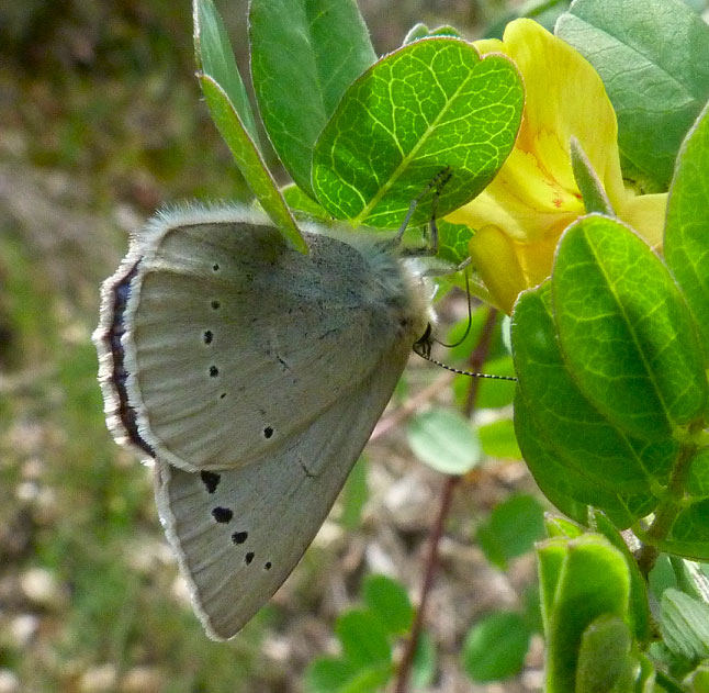 Near Mas de Bondia (Catalonia). May 2013.